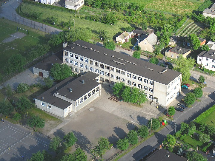 School in Rogowo, Żnin County, Poland